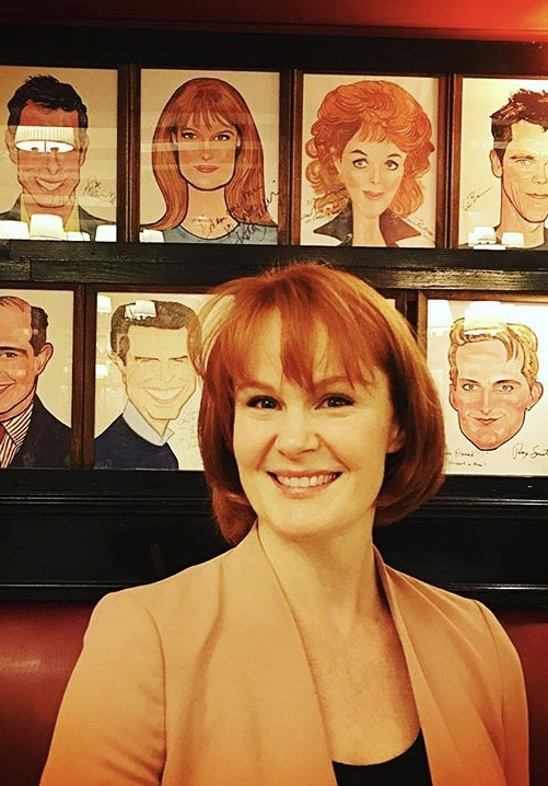 Kate Baldwin at Sardi's